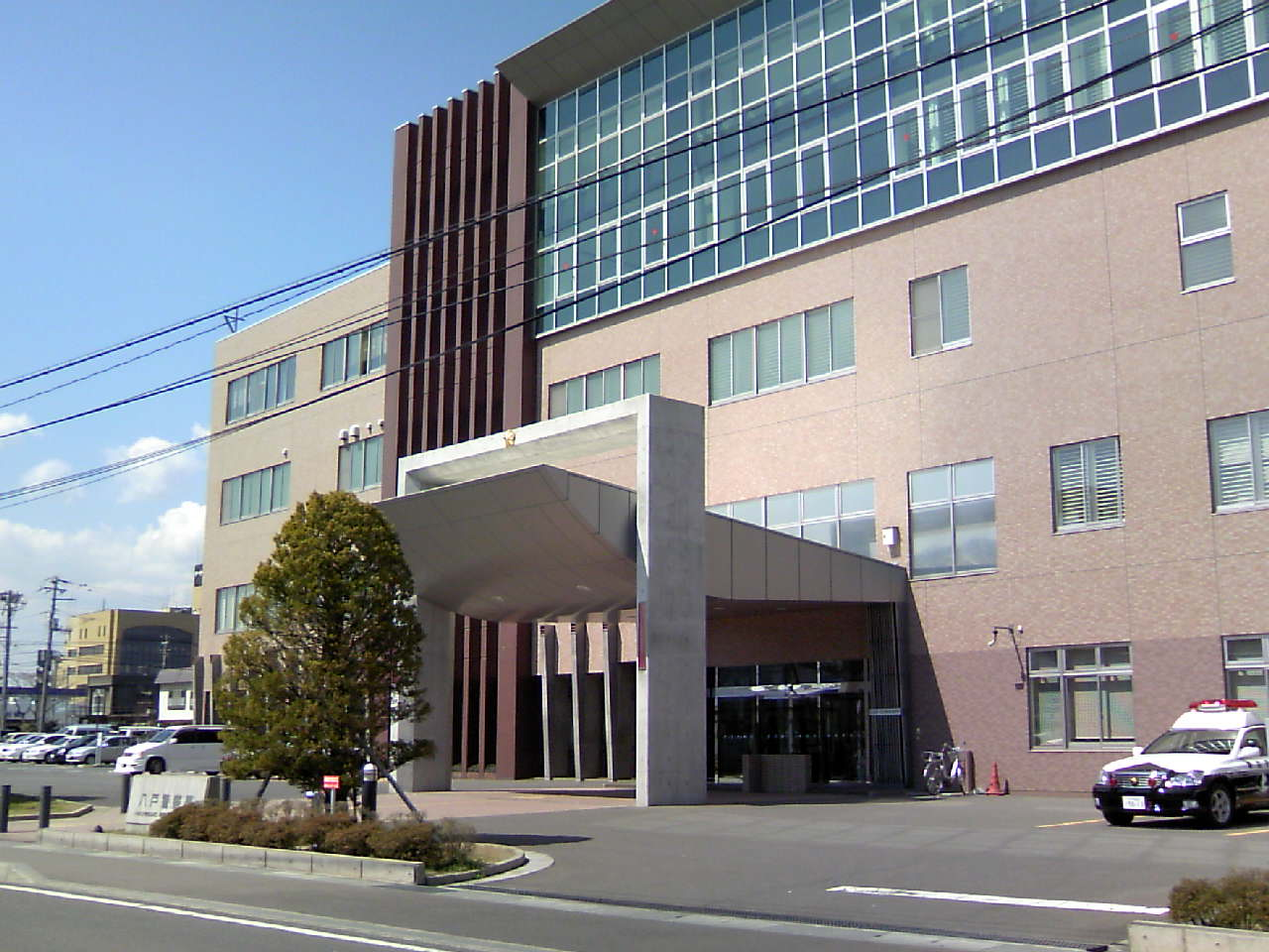 八戸警察署 (Hachinohe Police Station - Aomori, JAPAN)